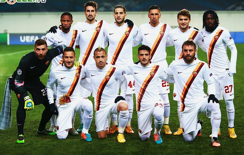 AS Roma